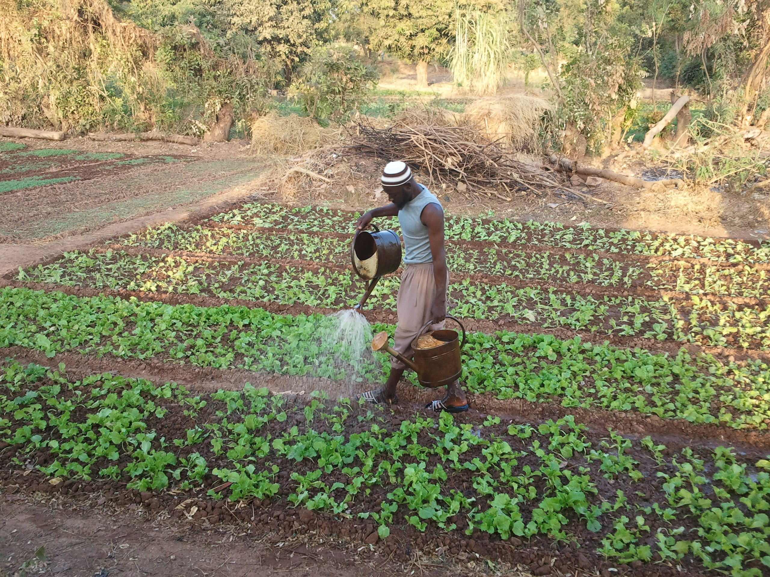 Growing lettuce inside Ouagadougou, Burkina Faso This is an image of "African people at work" from Burkina Faso